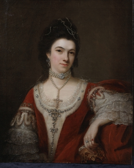 Portrait of Jane Roberts, Duchess of St Albans (d.1778) - Jane Roberts, daughter and heiress to Sir Walter Roberts Bart., married George Beauclerk, third Duke of St Albans, on October 23rd 1752 at St George's, Hanover Square in London. In addition to her beauty she brought her husband a dowry of £125,000. Sadly the Duchess died in 1778 without producing an heir and the Duke, who died some years later in 1786, was succeeded by a cousin.